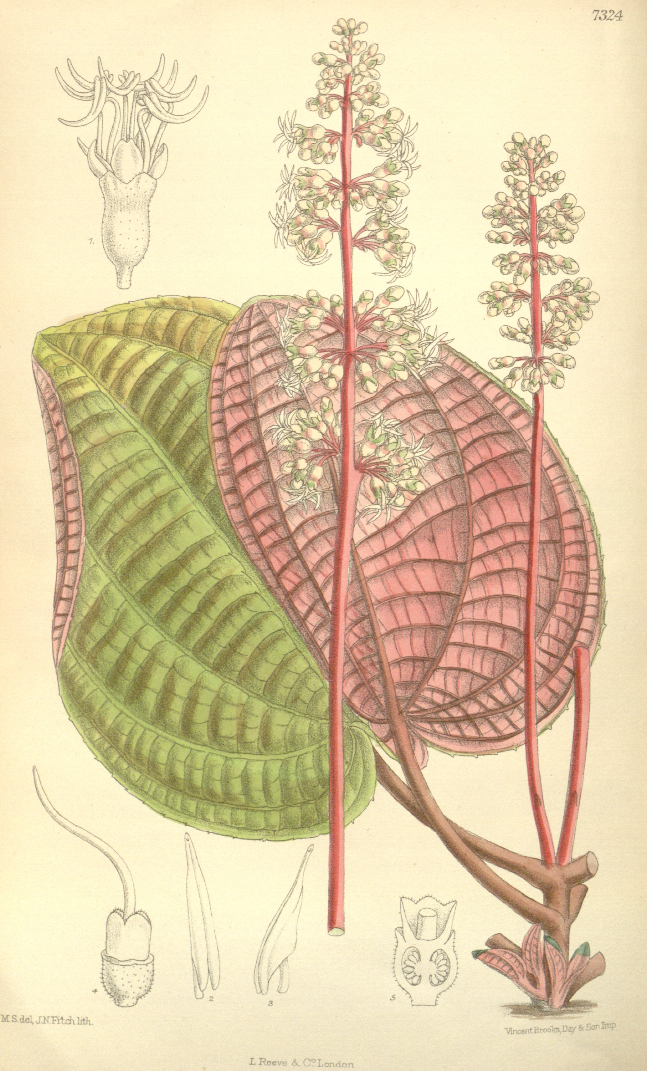 Allomorphia griffithii (= Phyllagathis griffithii), Melastomataceae